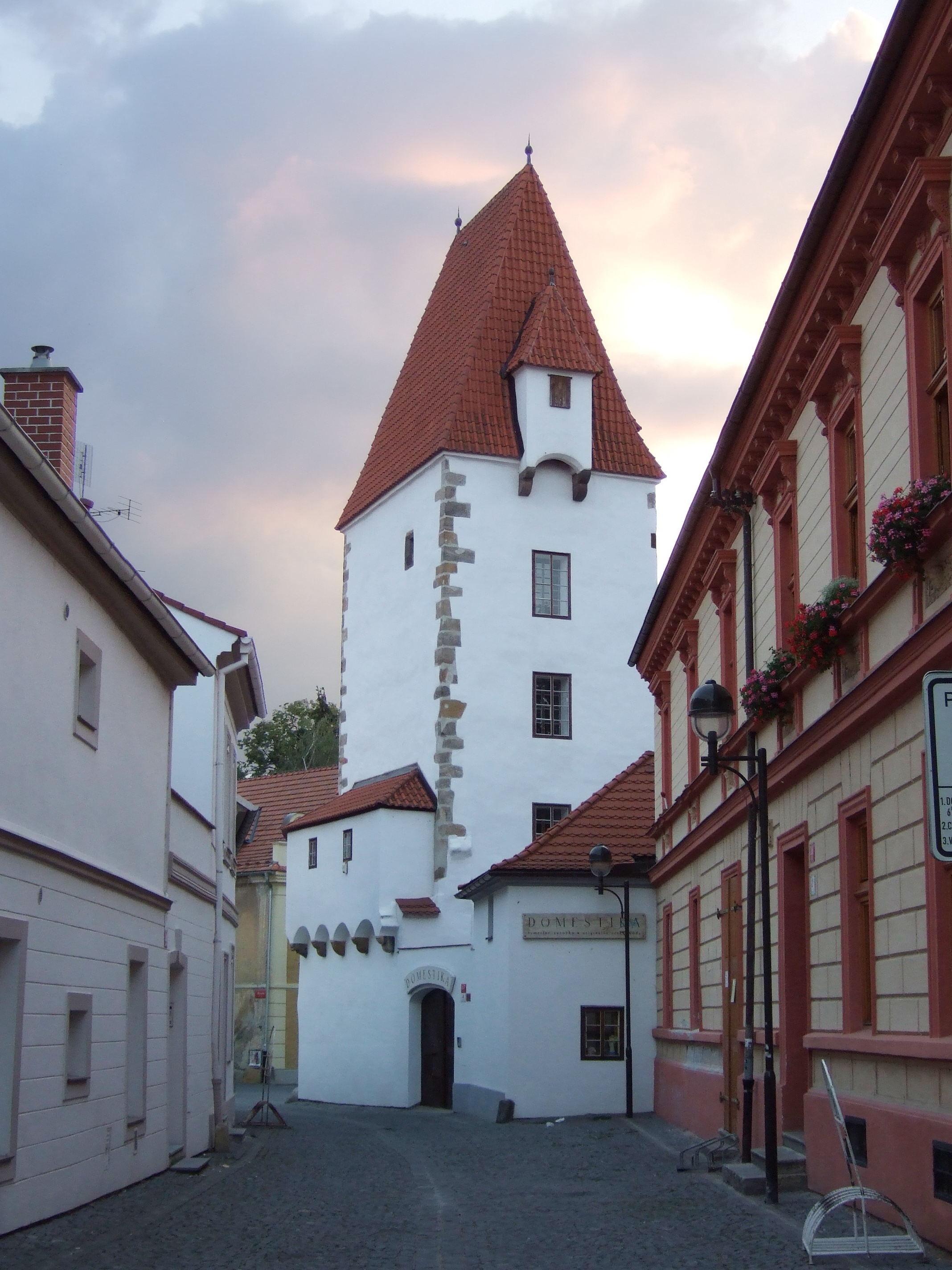 Rabenštjen Tower in České Budějovice, Czech Republic